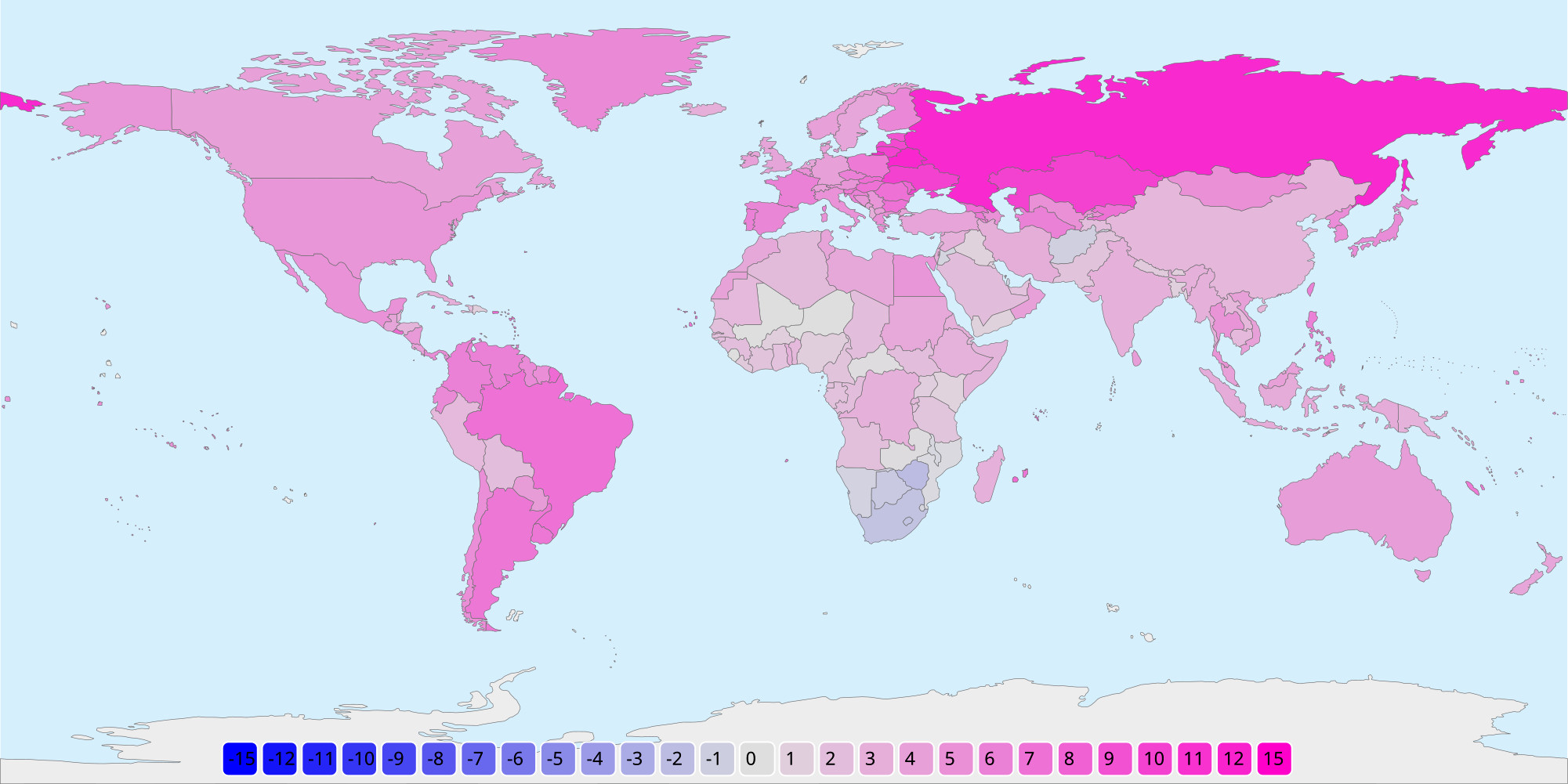 World map with life expectancy at birth difference between females and males in years (pink : countries where female live longer, blue : a few countries in south of Africa devastated by AIDS where males live longer). Data combines multiples sources : WHO2015, UN2015, CIA2012, GBD2010 and OECD2013. In case multiple sources are available for a country, minimum of the difference is taken into account. Interactive map is available on